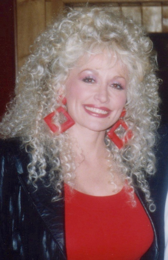 Dolly Parton at a recording session about 1989, wearing large square red earrings